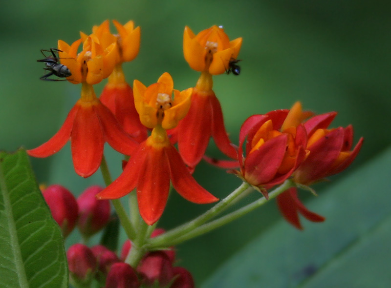 Asclepias curassavica - Mexican Butterfly Weed, Scarlet Milkweed, Bloodflower, Silkweed, Indian root • Hindi: काकाटुन्डी Kakatundi • Manipuri: ক্ৰিশ্নচূৰা Krishnachura • Marathi: पिवला चित्रक Pivla chitrak, Halad kunku • Kuki: Langthlei - in Hyderabad, India.